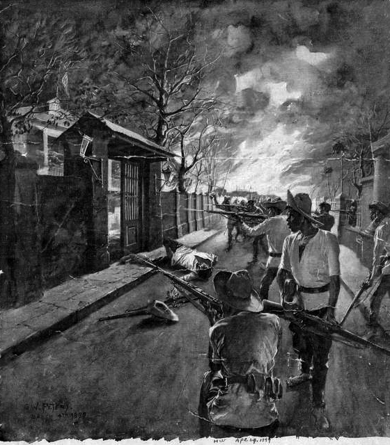 Manila--insurgent attack on the barracks of Co. C, 13th Minnesota Volunteers, during the Tondo Fire.